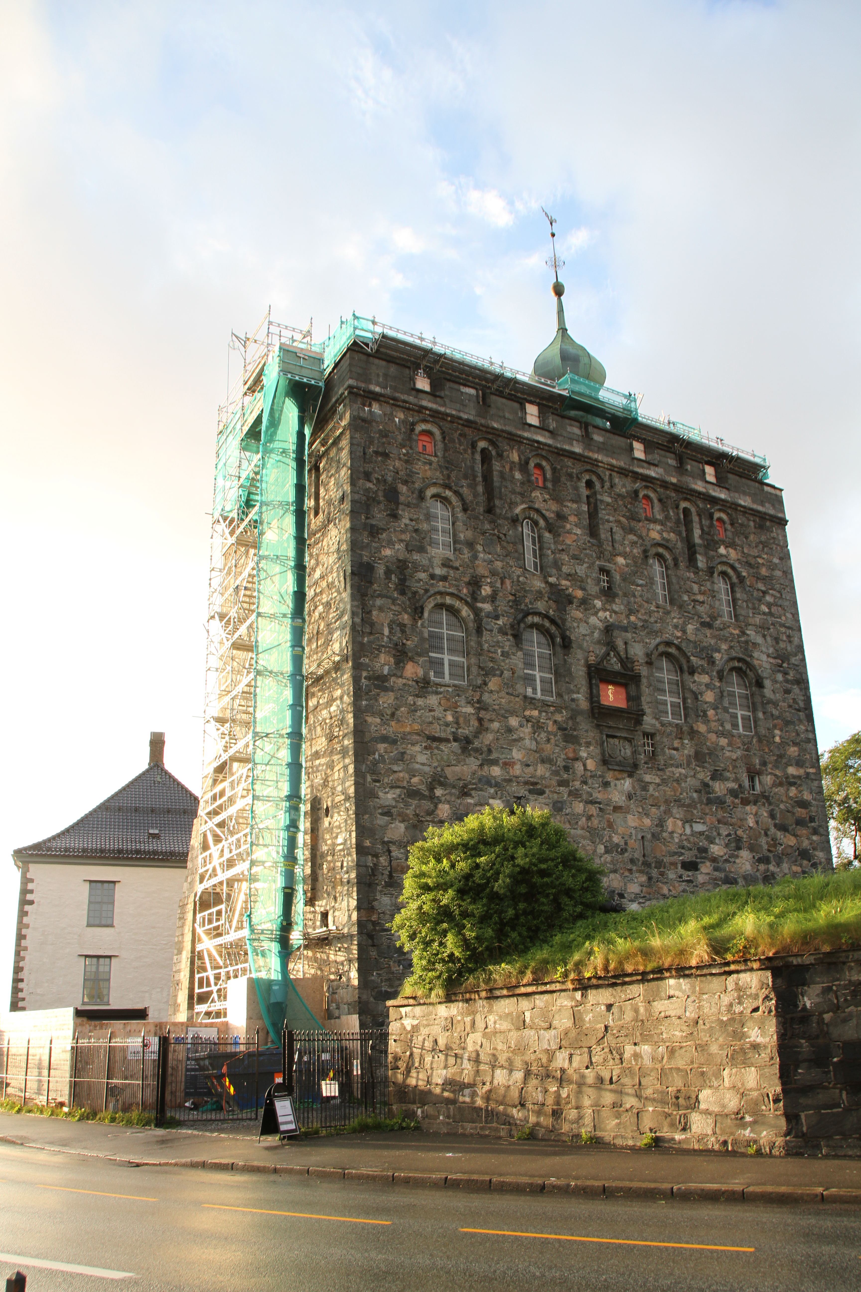 The Rosenkrantz Tower, a late medieval fortress Tower in Bergen, Norway